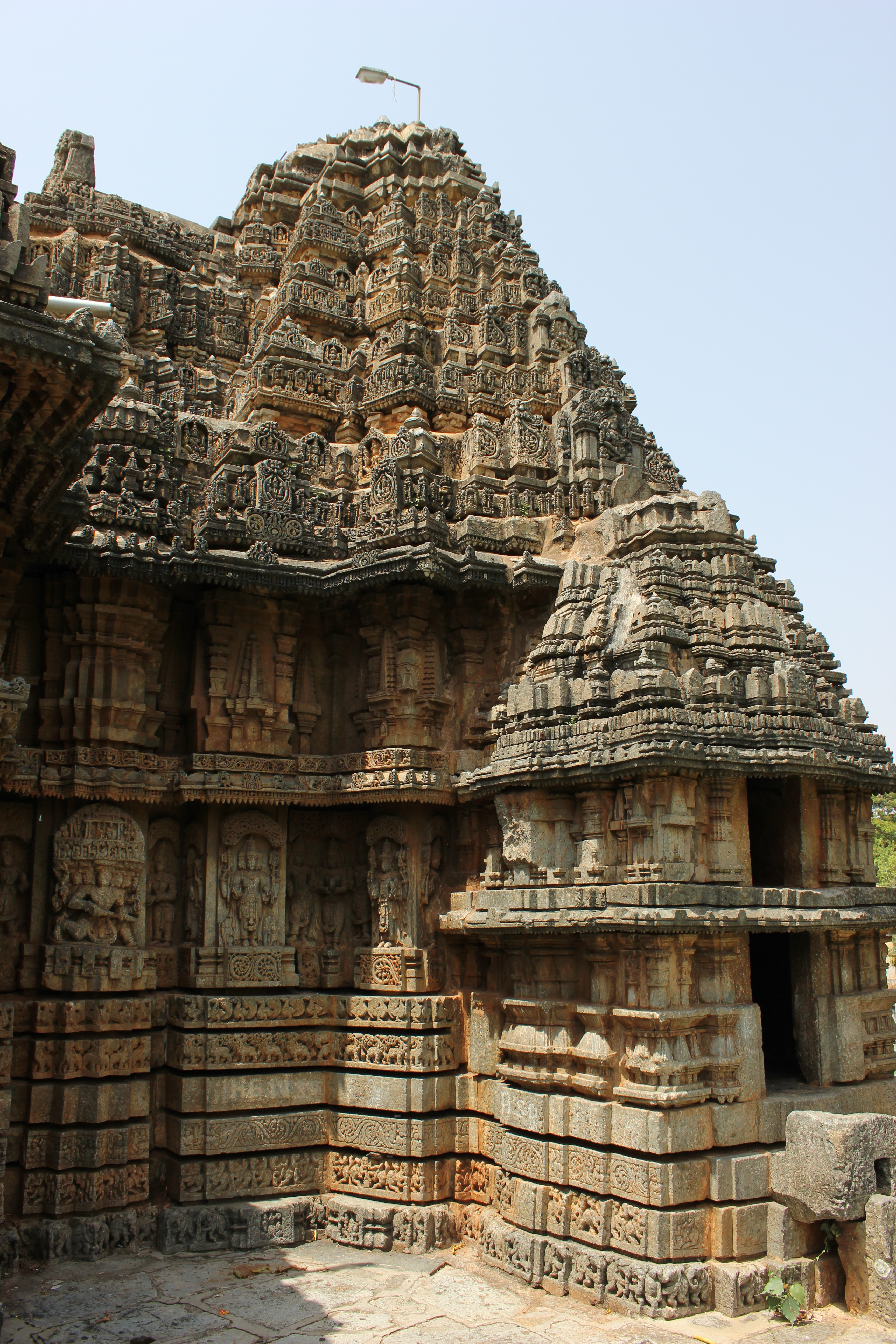 This photograph was taken by me at Haranhalli, Hassan district, Karnataka state, India. The temple, whose main deity is the Hindu god Shiva (in the form of the Linga) , was built in 1235 A.D. by the Hoysala Empire King Vira Someshwara.